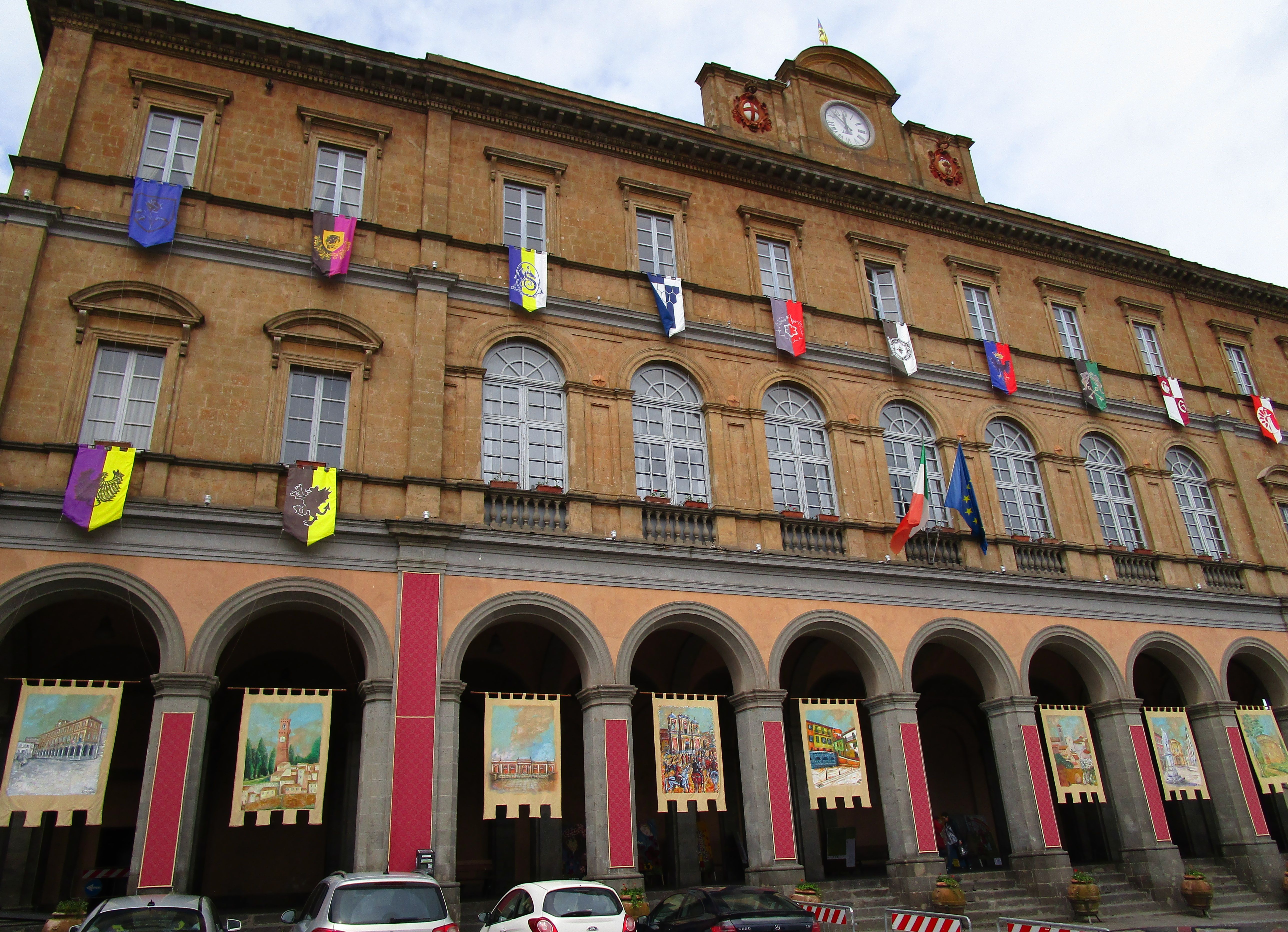 Acquapendente City Hall decorated with heraldry banners of the local contrade, similar to contrade di Siena, though much less old than those. Shot at the wake of a big city event.